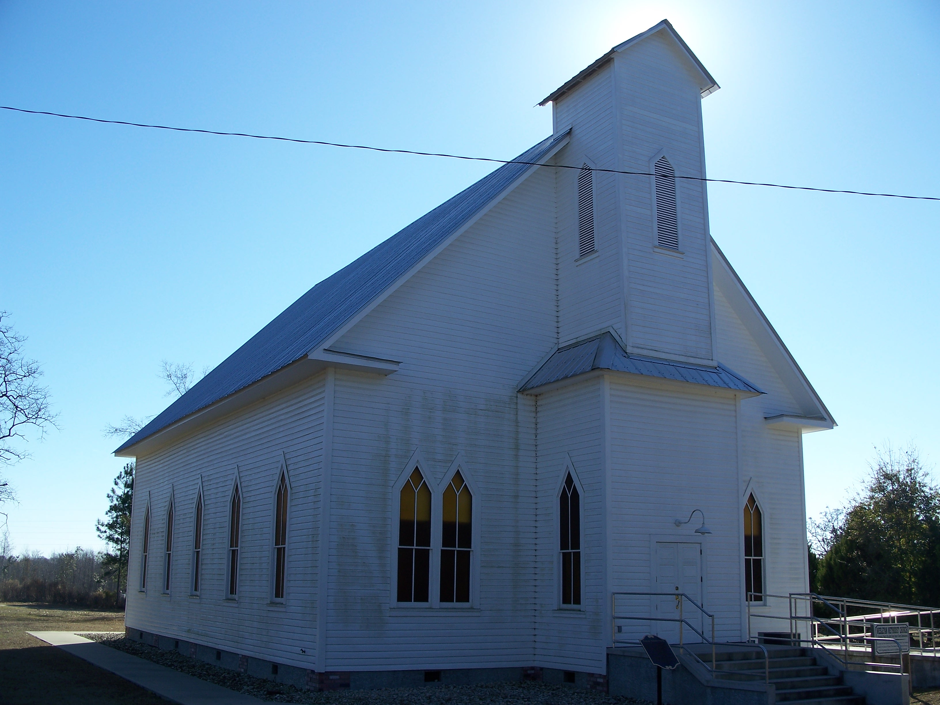 Hosford, Florida: Wesleyan Methodist Church